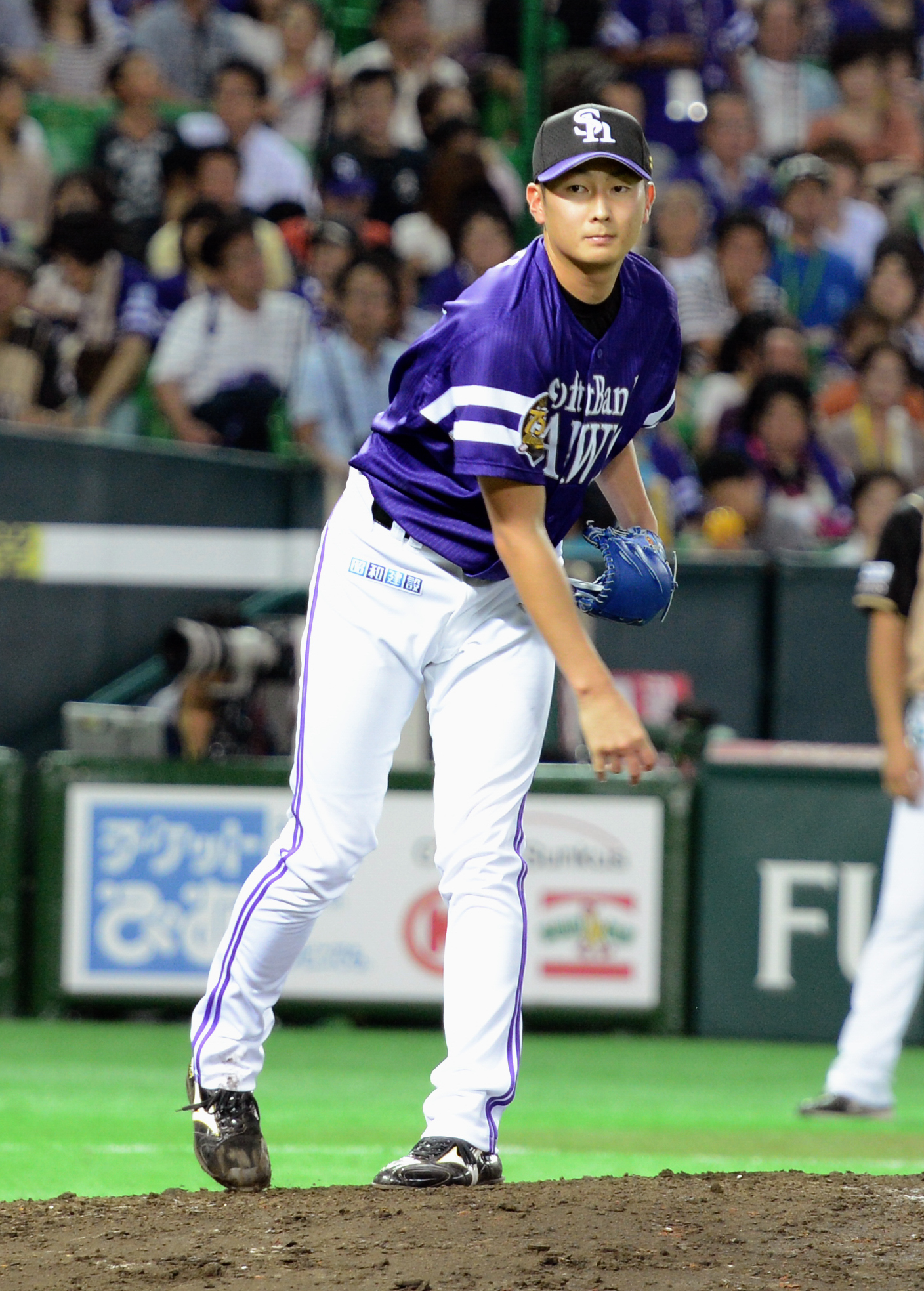 Akira Niho, pitcher of the Fukuoka SoftBank Hawks, at Fukuoka Dome.